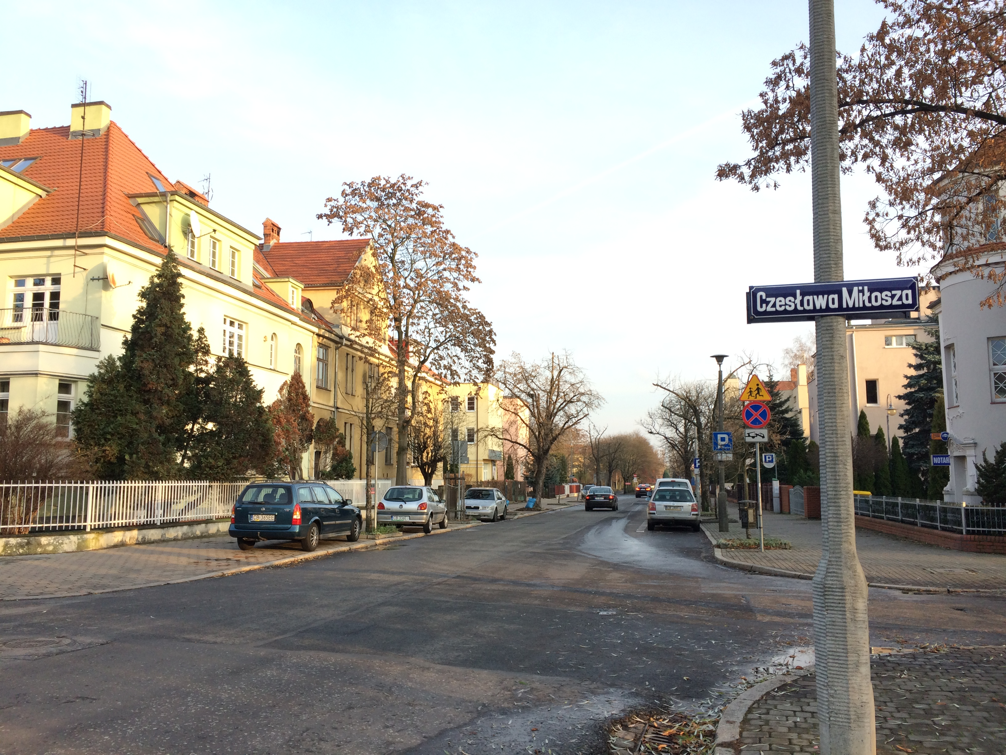 View to the east